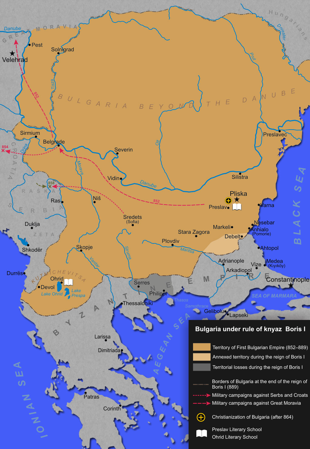 Exactation according to De administrando imperio, Const. Porphyr., ibid., cap. 32, p. 154—155